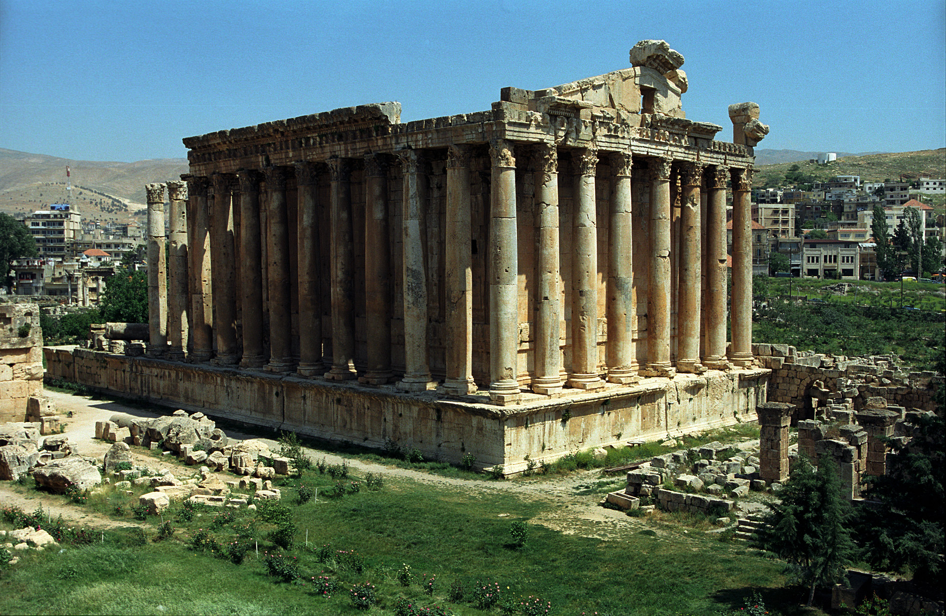 Baalbek, Temple of Bacchus